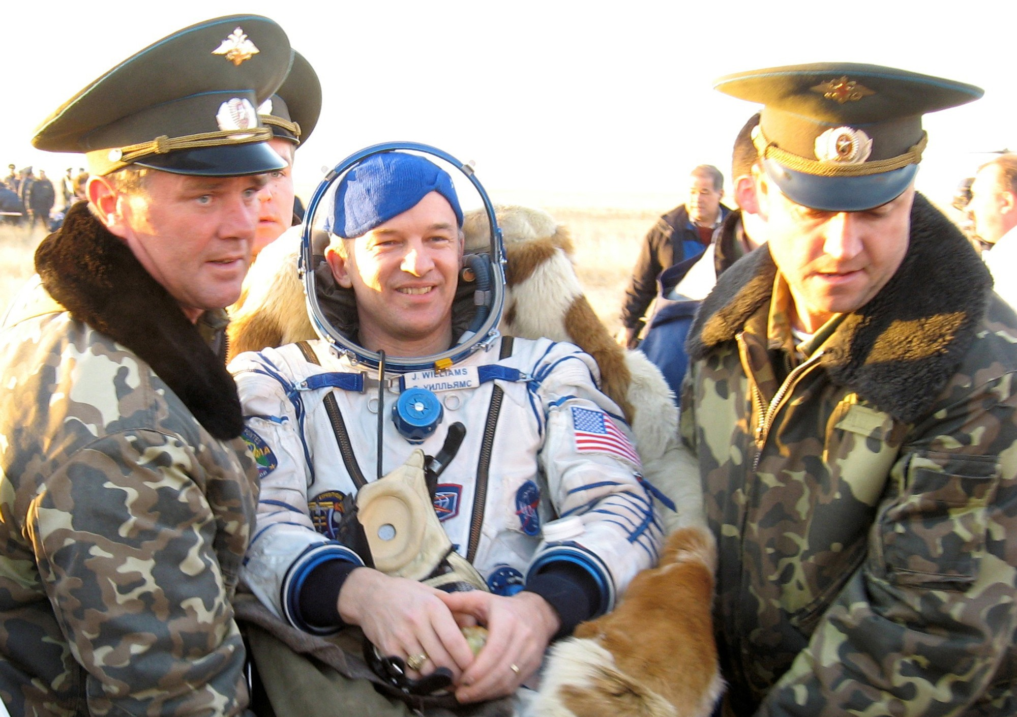 JSC2006-E-42734 (29 Sept. 2006) --- Astronaut Jeffrey N. Williams, Expedition 13 flight engineer and NASA ISS science officer, is assisted by Russian search and recovery teams on the steppe of central Kazakhstan on Sept. 29, 2006. Americans who also helped are out of the frame. This came a short while after the landing in the Soyuz TMA-8 spacecraft following undocking earlier in the day from the International Space Station. Williams and cosmonaut Pavel V. Vinogradov, Expedition 13 commander, spent 183 days in space while Anousheh Ansari, spaceflight participant, spent 11 days in space and 9 days on the ISS under a commercial agreement with the Russian Federal Space Agency.